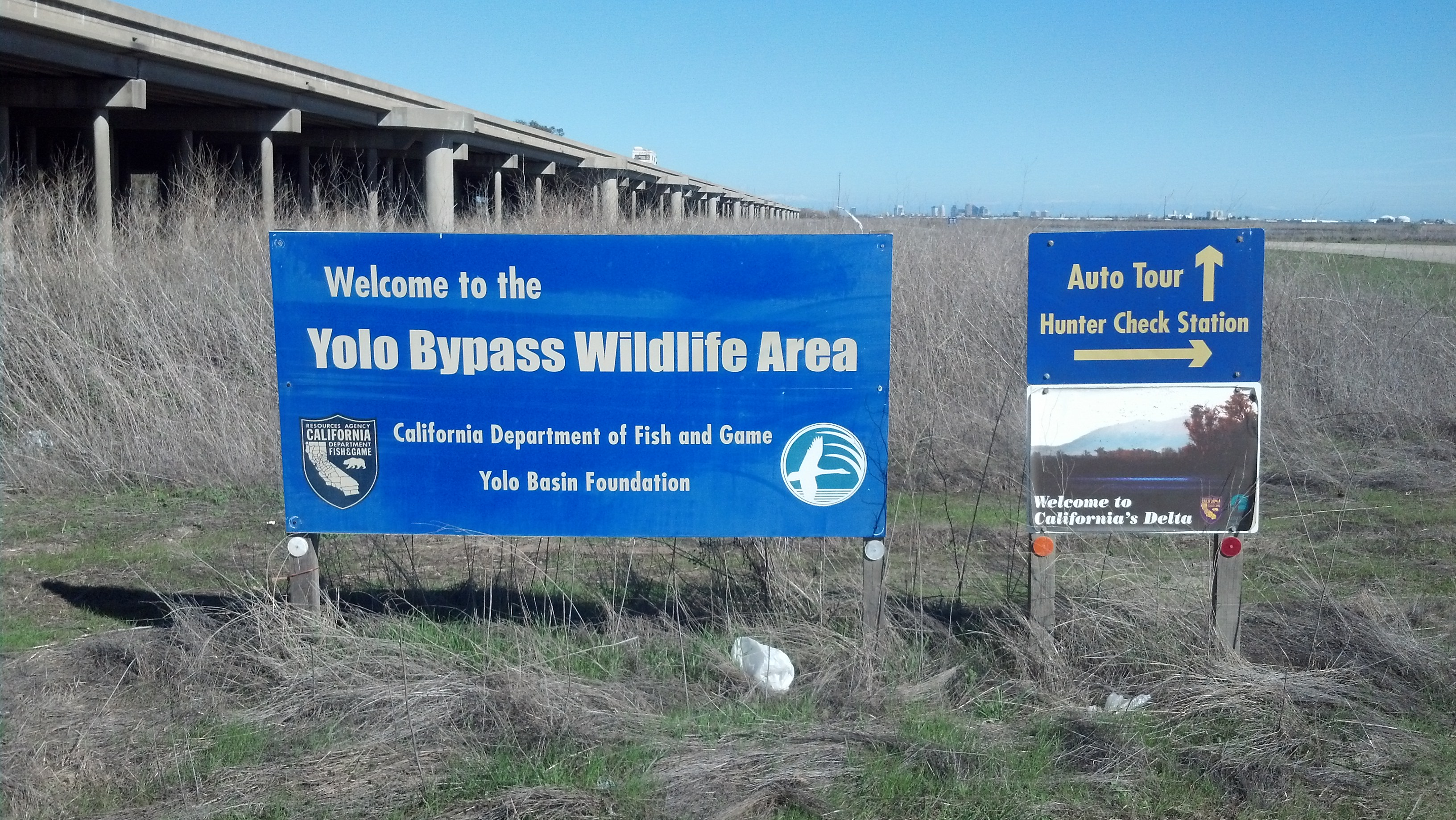 The entrance to the Yolo Bypass Wildlife Area, with the Yolo Causeway to the left — in the northern Sacramento–San Joaquin River Delta. Located in the Sacramento Valley, Yolo County, northern California. Photo by Jim Heaphy.